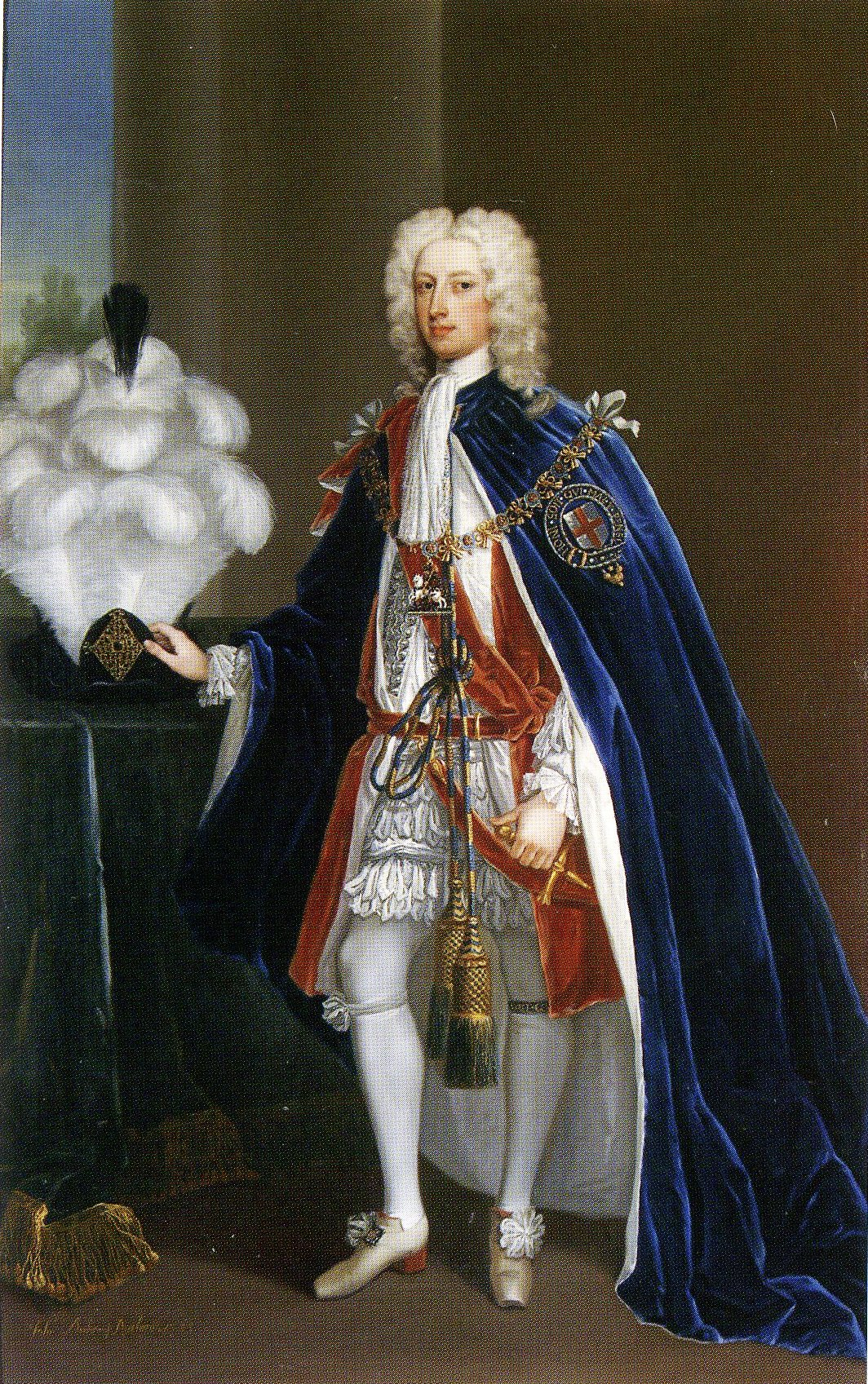 John Manners, 3rd Duke of Rutland, by Charles Jervis, 1725, Belvoir Castle